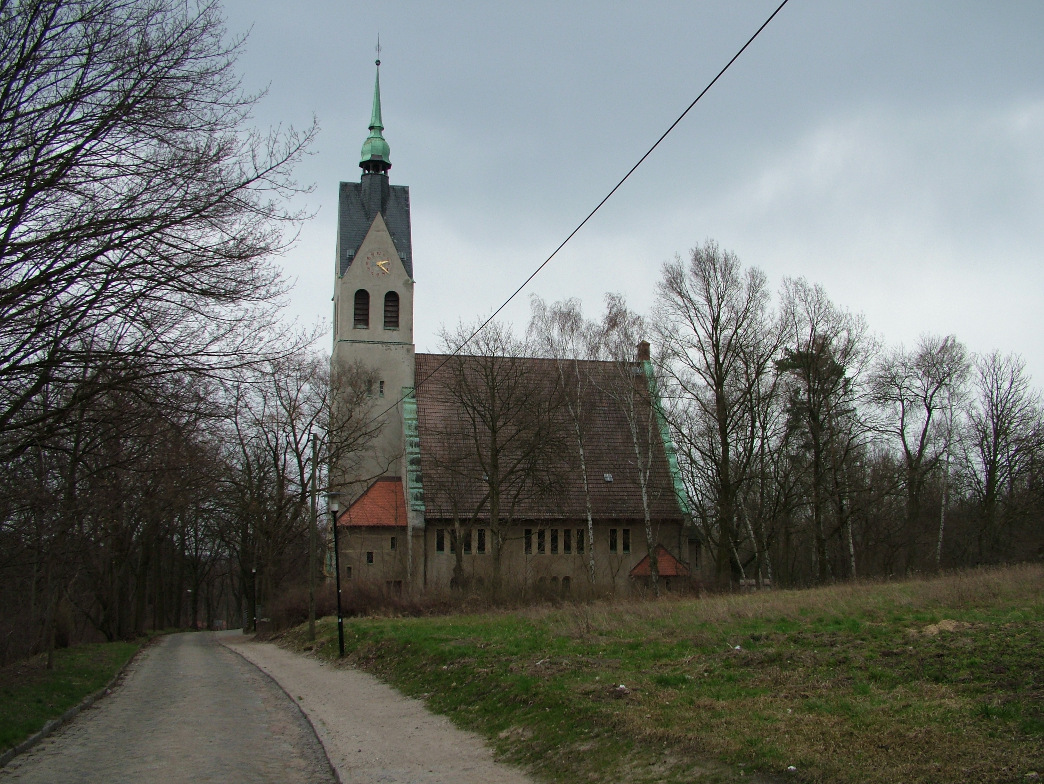 The Peace Church in Wildau / Brandenburg / Germany